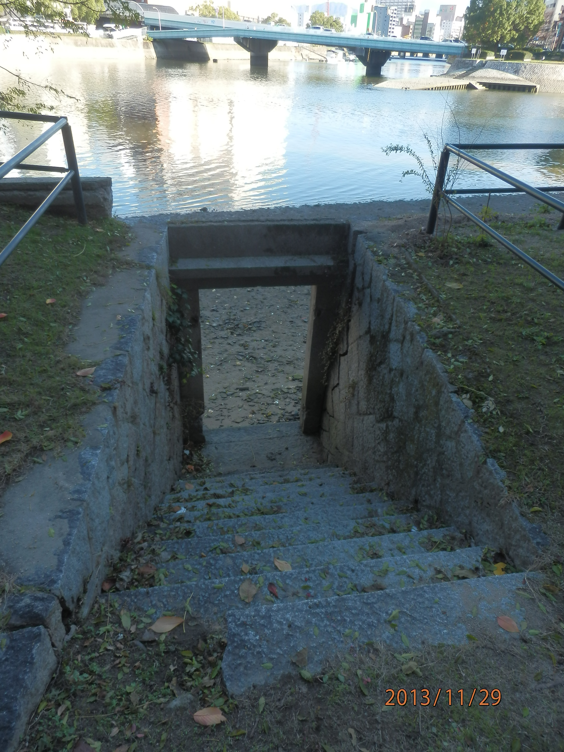 広島市上幟町東部河岸緑地 Riverbank of TOBUKAGAN RYOKUCHI PARK KAMINOBORI-CHO, HIROSHIMA, JAPAN